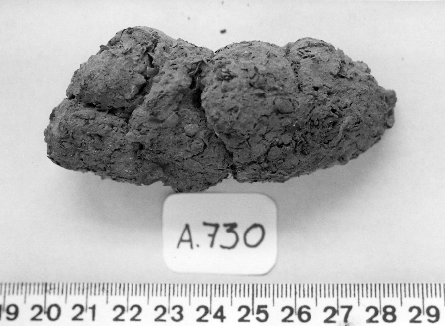 Human coprolite found in burial dated between 1860 ± 50 and 1610 ± 70 years BP from archaeological site of Furna do Estrago, northeastern Brazil.